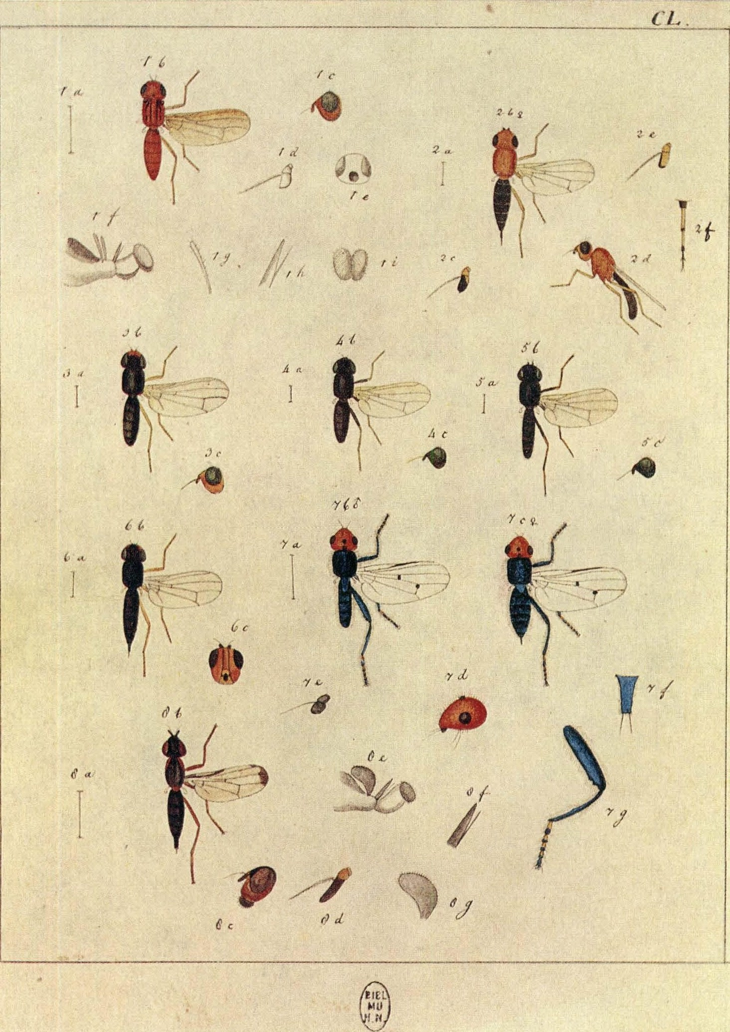 Johann Wilhelm Meigen, 1790 Abbildung der europäischen zweiflügeligen Insekten nach der Natur Von Joh. Wilh. Meigen zu Stolberg bei Aachen 1 Taf CL plate text Valid names and synonyms at Catalogue of Life (Annual Checklist)and Nomenclator.Types at MNHN collections database Note Europäischen Zweiflügeligen includes species described by previous authors - Linnaeus, Wiedemann, Fabricius, Scopoli, Forster,Rossi, Macquart,Robert etc.